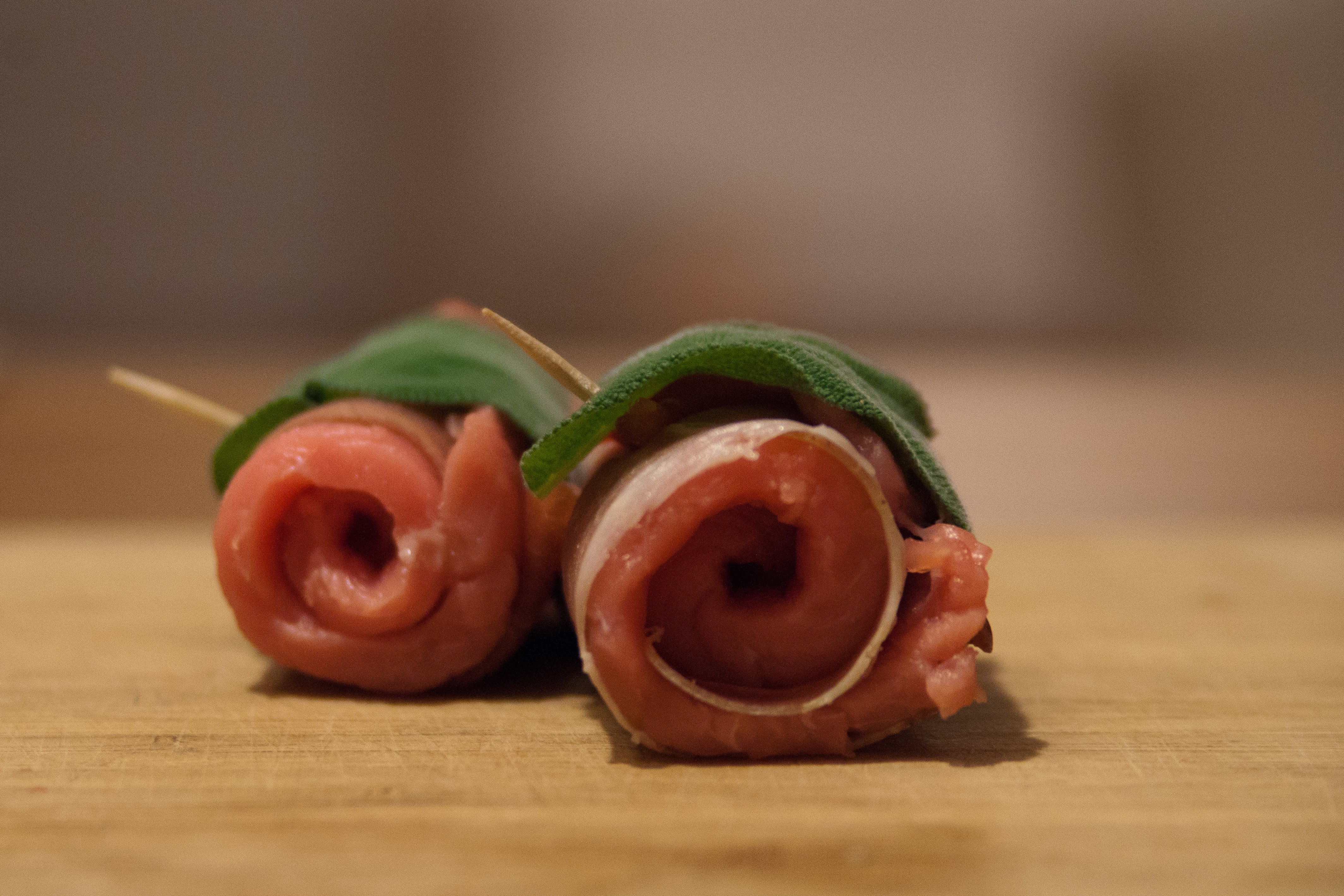 Veal saltimbocca, uncooked